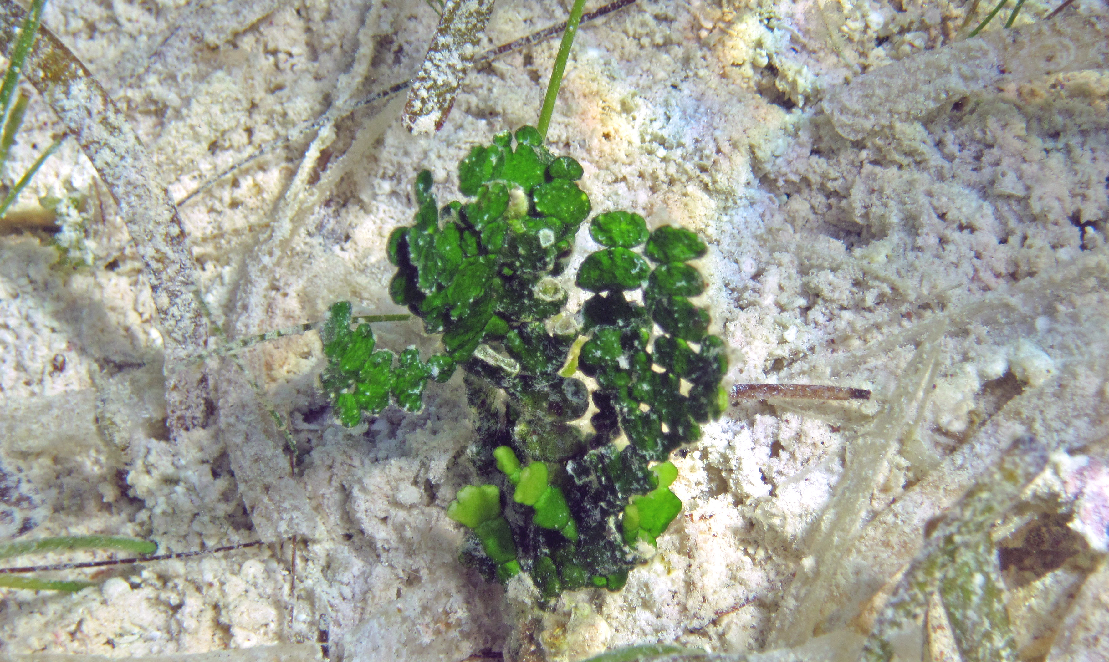 Halimeda incrassata (Ellis, 1768) on shallow, aragonitic sandy seafloor. Halimeda species are calcareous green algae consisting of upright stacks of greenish-colored, usually flattened segments. Each segment has an internal chip of calcium carbonate (aragonite, CaCO3). After the algae die and the soft parts decay away, the aragonitic chips become sand-sized seafloor sediments. A significant percentage of shallow seafloor and shoreline sediments in the Bahamas is from calcareous algae. Classification: Chlorophyta, Caulerpales, Halimedaceae Locality: shallow seafloor just west of North Point Peninsula, southeastern Graham's Harbour, northeastern San Salvador Island, eastern Bahamas